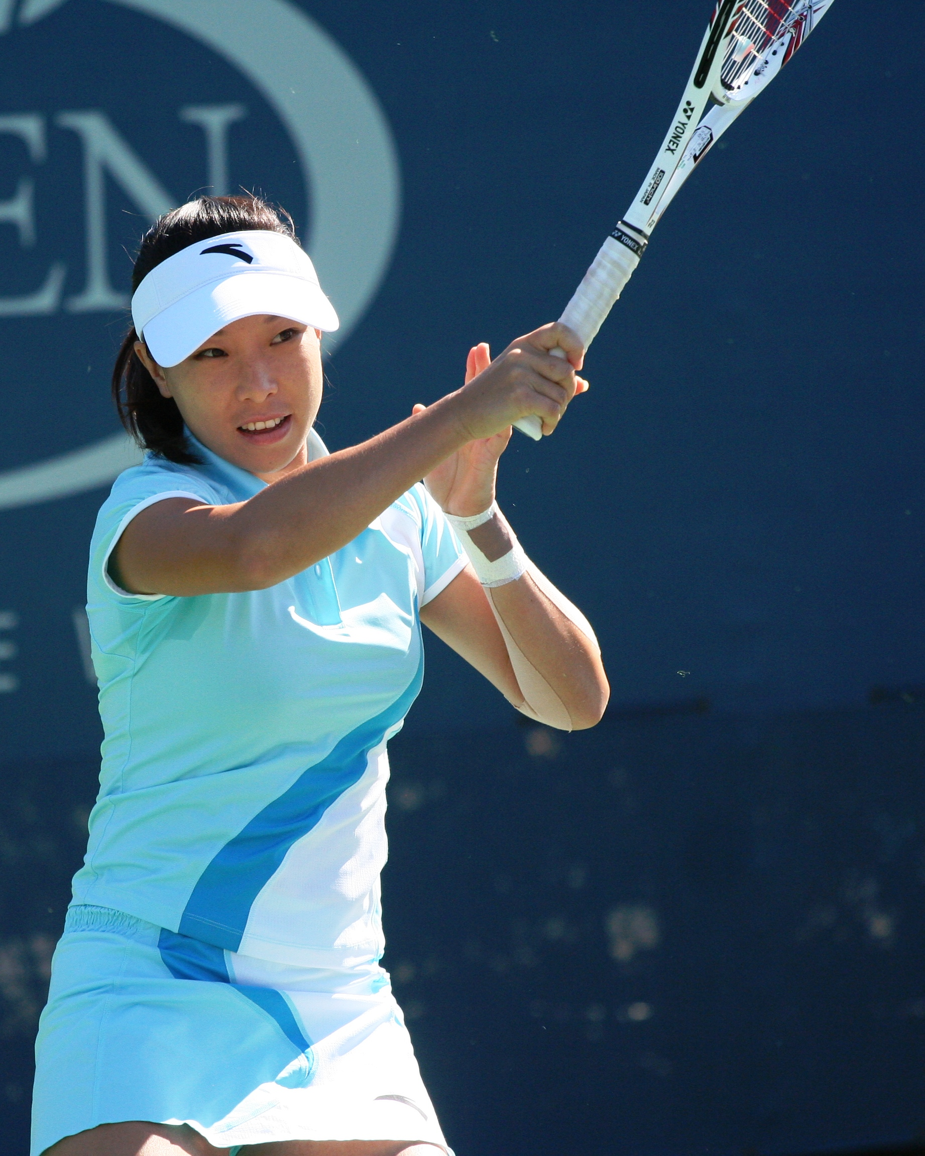 U.S. Open Monday, Sept. 6, 2010